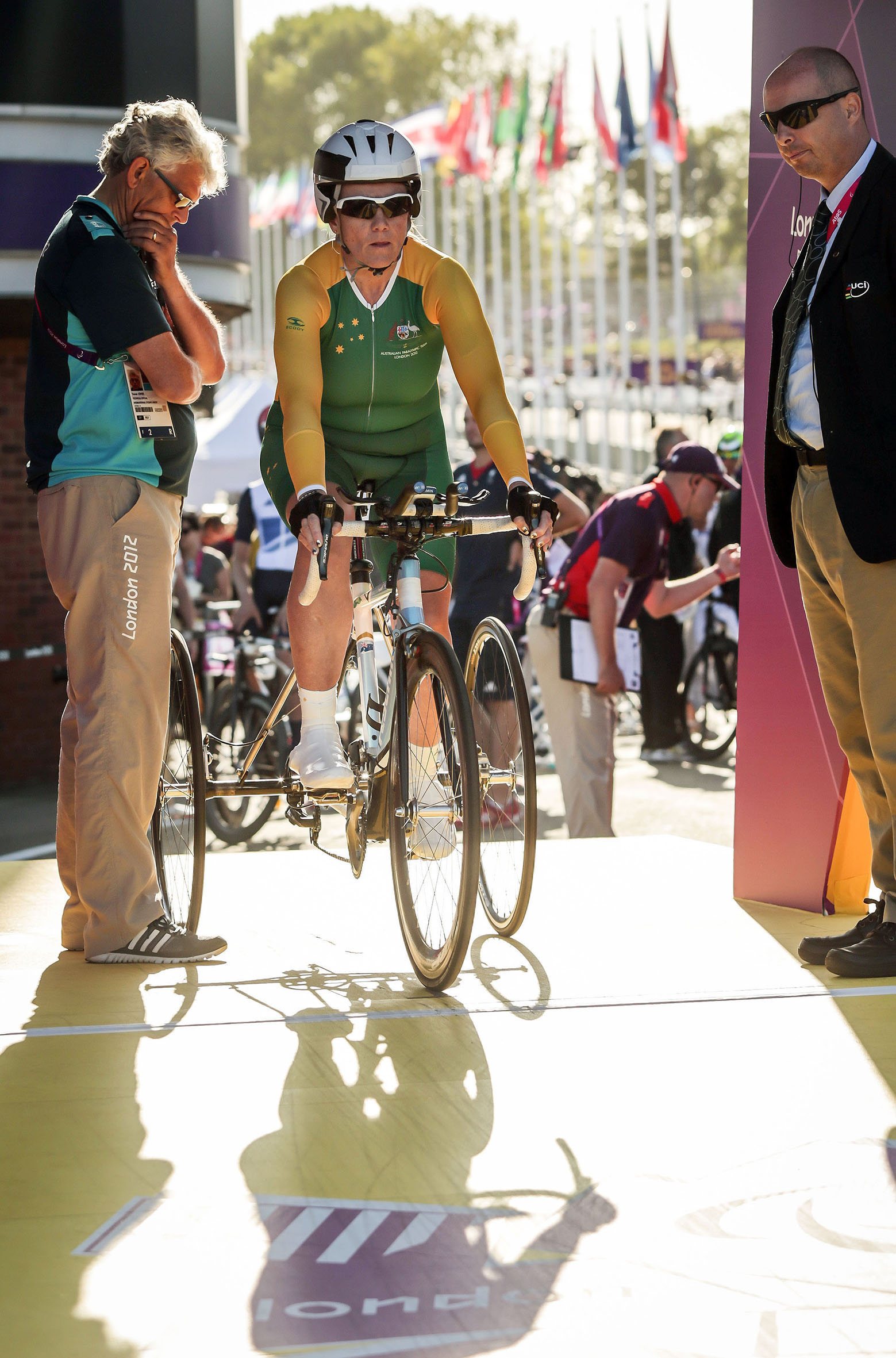 Photograph of Australian Paralympic team member Carol Cooke at the 2012 Summer Paralympic Games in London